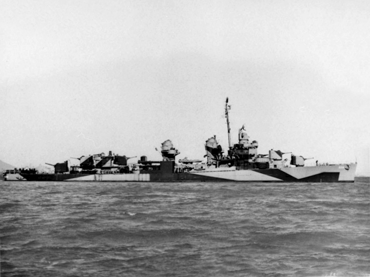 The U.S. Navy destroyer USS Cony (DD-508) off the Mare Island Naval Shipyard, California (USA), on 25 February 1944. Cony was in overhaul at Mare Island from 4 December 1943 until 29 February 44. The ship is painted in Camouflage Measure 31, Design 21D.